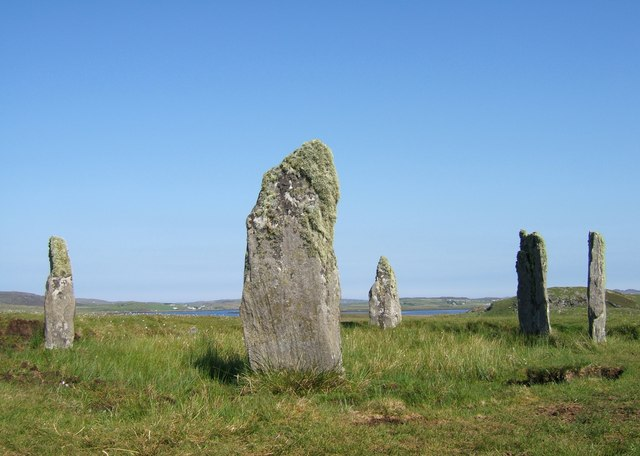 Callanish IV